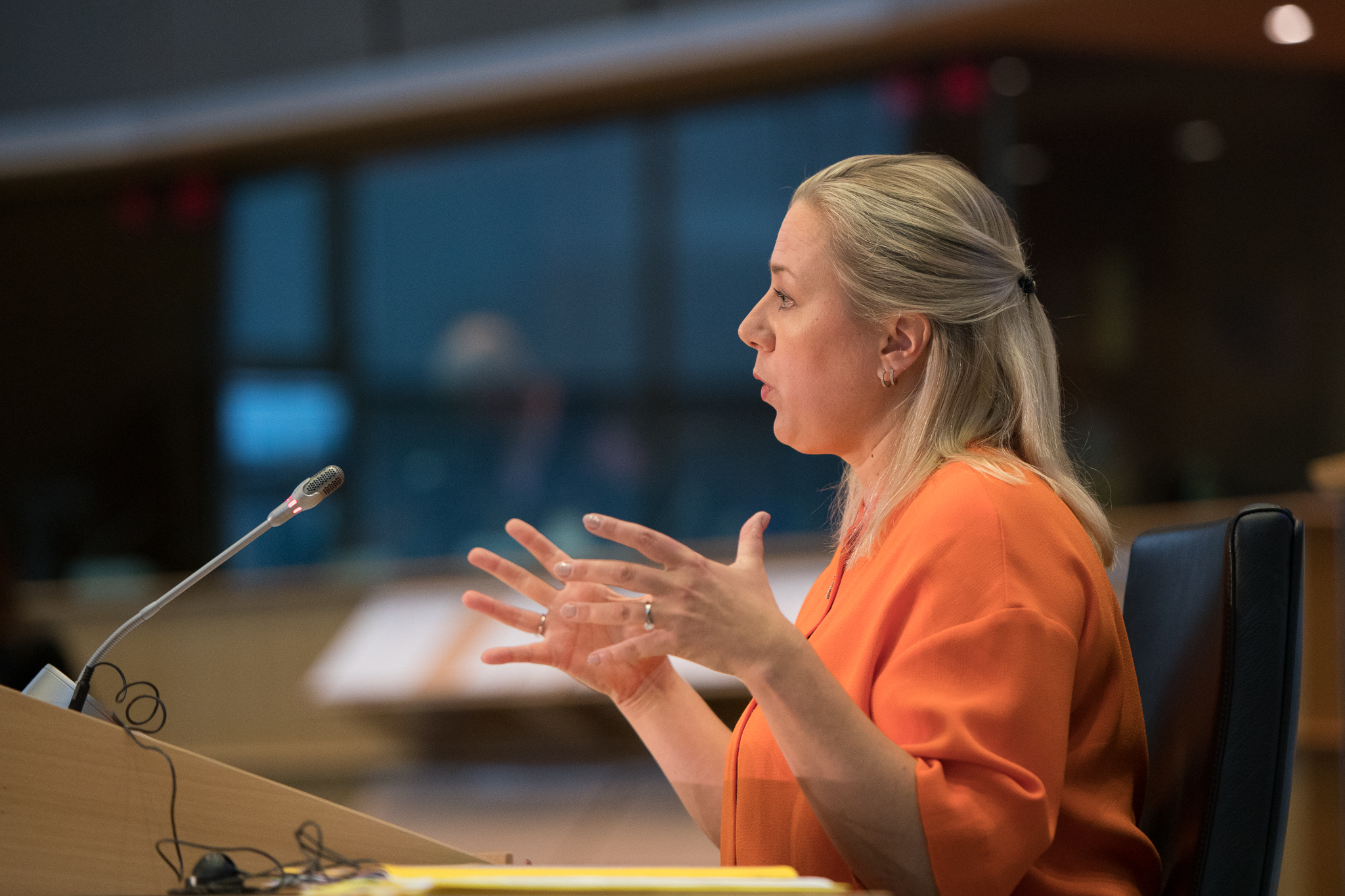 Before the European Parliament can vote the new European Commission led by Ursula von der Leyen into office, parliamentary committees will assess the suitability of commissioners-designate. On 23-26 May, more than 200,000,000 people in 28 EU countries went to the polls to elect members of the European Parliament, giving them a strong democratic mandate, including voting into office the new European Commission and examining the competencies and abilities of its commissioners-designate. Elected members of the European Parliament will also listen to their ideas and will assess their willingness to take concrete actions on the issues that Europeans care about. Each candidate commissioner is invited for a live-streamed, three-hour hearing in front of the committee or committees responsible for their proposed portfolio. The hearings will take place between Monday 30 September and Tuesday 8 October. This photo is free to use under Creative Commons license CC-BY-4.0 and must be credited: "CC-BY-4.0: © European Union 2019 – Source: EP". No model release form if applicable. For bigger HR files please contact: webcom-flickr(AT)